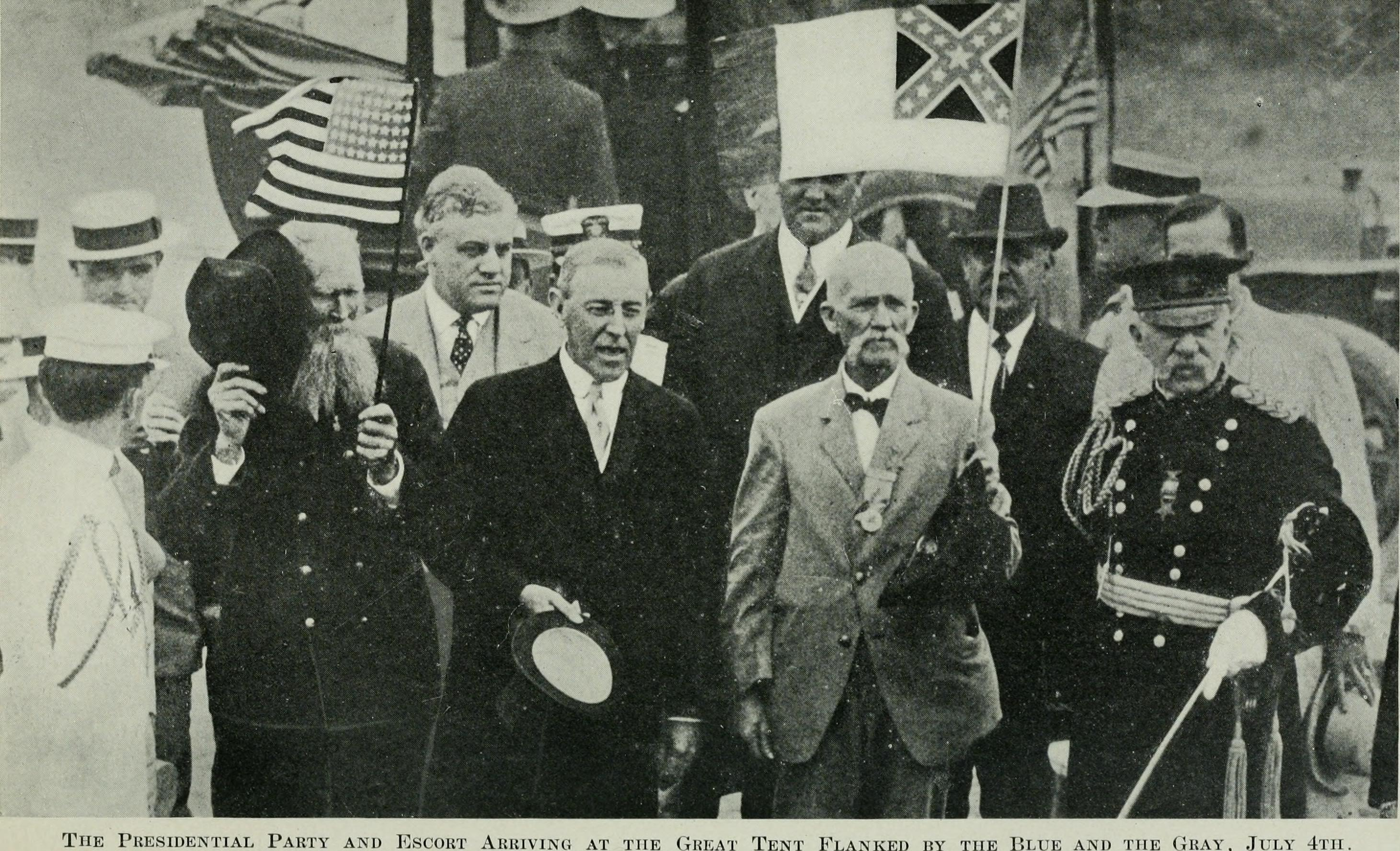 Title: Pennsylvania at Gettysburg : ceremonies at the dedication of the monuments erected by the Commonwealth of Pennsylvania to Major General George G. Meade, Major General Winfield S. Hancock, Major General John F. Reynolds and to mark the positions of the Pennsylvania commands engaged in the battle Year: 1914 (1910s) Authors: Pennsylvania. Gettysburg Battle-field Commission Nicholson, John Page, 1842-1922 Beitler, Lewis Eugene, 1863- Subjects: Gettysburg, Battle of, Gettysburg, Pa., 1863 Gettysburg Reunion, 1913 Publisher: (Harrisburg : W. S. Ray, state printer) Text Appearing Before Image: ms upon us now out ofthat great day gone by. Here is the Nation God has builded by our hands. What shall wedo with it? Who stands ready to act again and always in the spiritof this day of reunion and hope and patriotic fervor? The day of our countrys life has but broadened into morning. Donot put uniforms by. Put the harness of the present on. Lift your eyes to the great tracts of life yet to be conquered in theinterest of righteous peace, of that prosperity which lies in a peopleshearts and outlasts all wars and errors of men. Come, let us be comrades and soldiers yet to serve our fellowmen inquiet counsel, where the blare of trumpets is neither heard nor heededand where the things are done which make blessed the nations of theworld in peace and righteousness and love. His Excellency, Governor, Tener, then bade the audienceGood-bye, and the band playing the Star-Spangled Banner,he then immediately escorted the President direct to his spe-cial train, the audience meanwhile dispersing. Text Appearing After Image: '